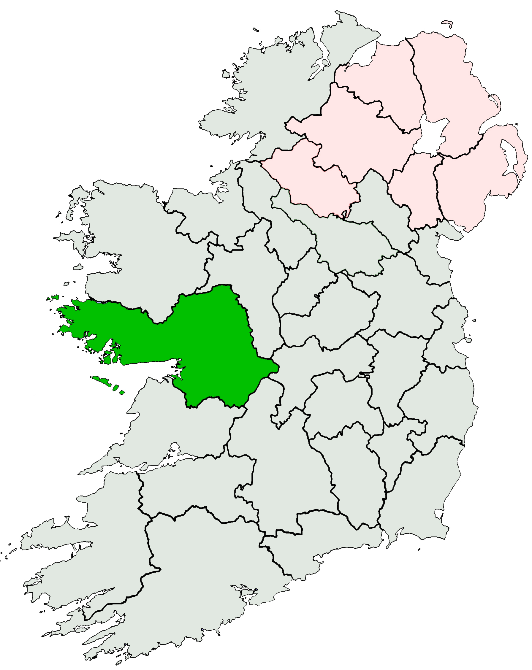 County Galway highlighted on an outline map of Ireland.